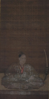 Tako Tokitaka, Enkoji, Oda, Shimane, Japan